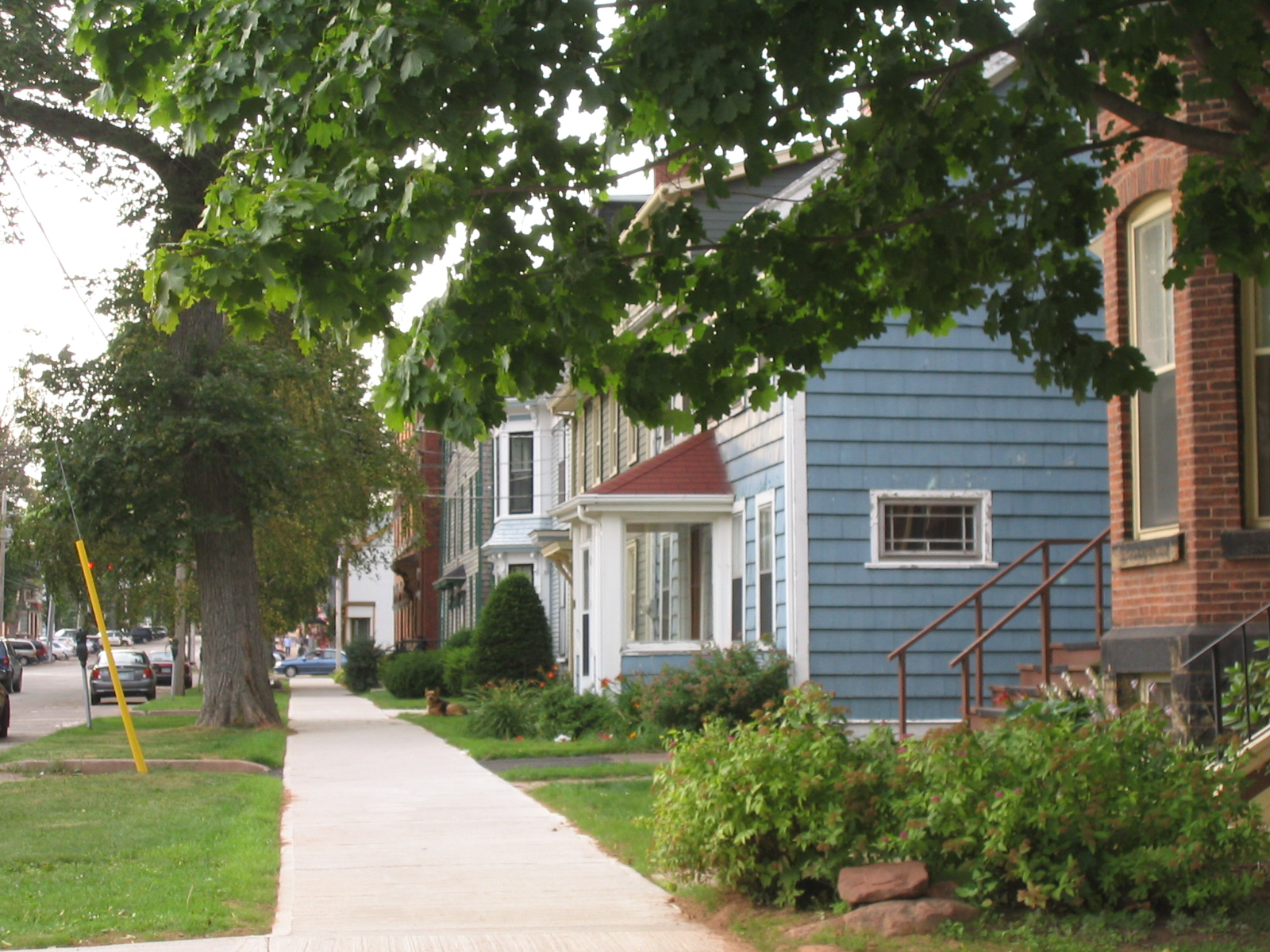 Charlottetown, Prince Edward Island